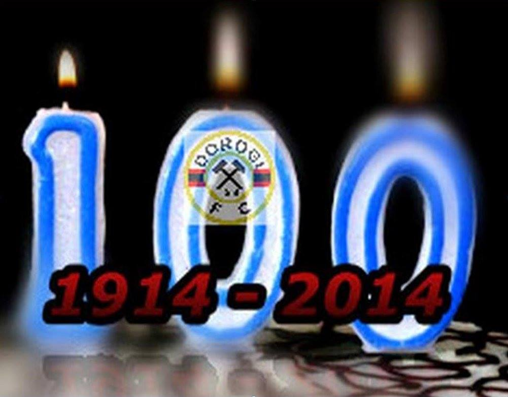 Remembering for a hundred years (corrected version)